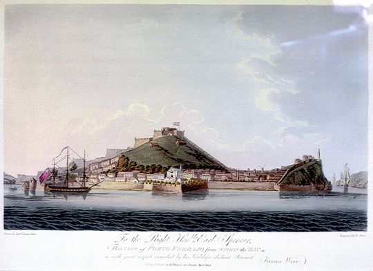 An engraving of the town of Porto Ferrajo on the island of Elba, created in 1814